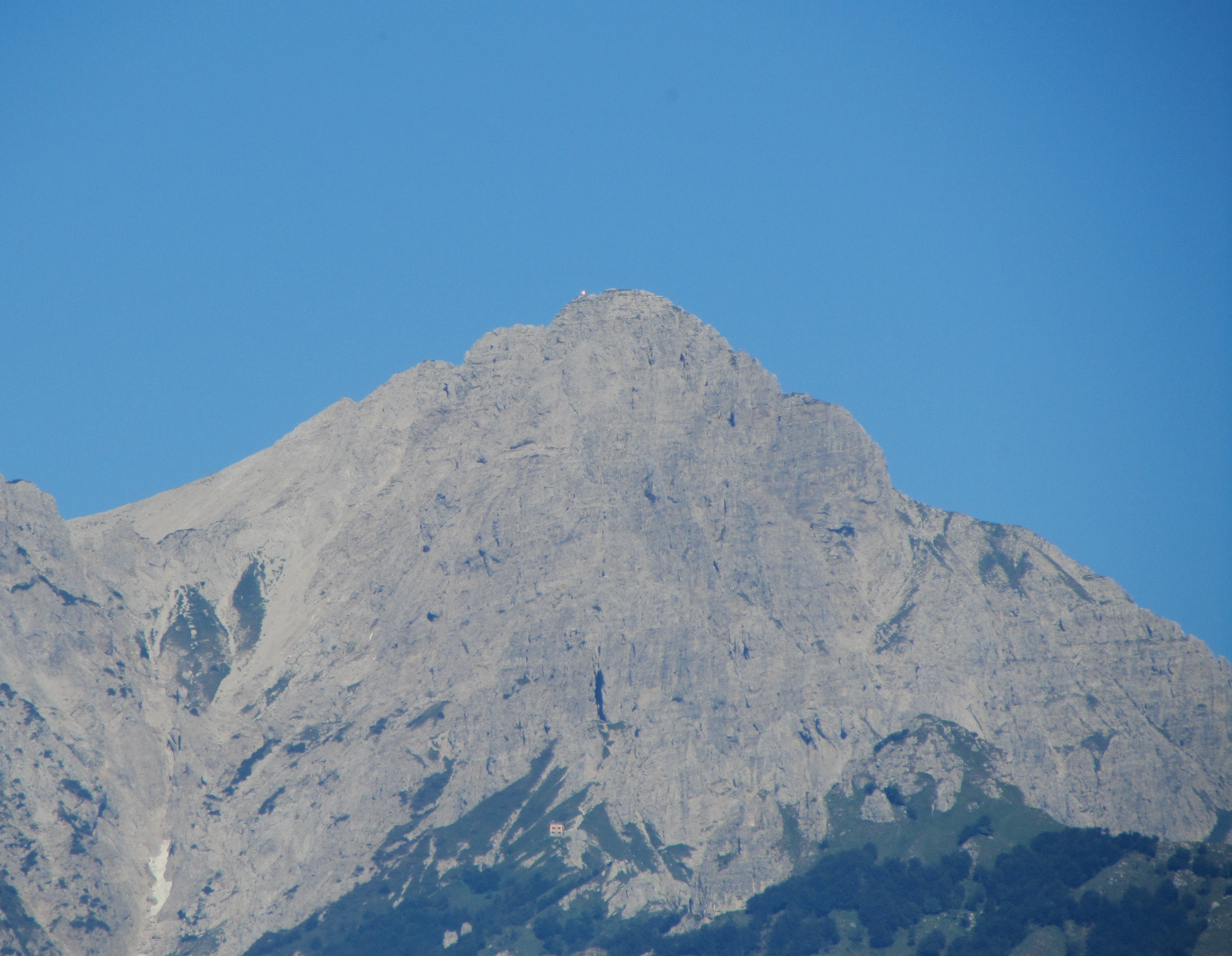 mount Grignetta